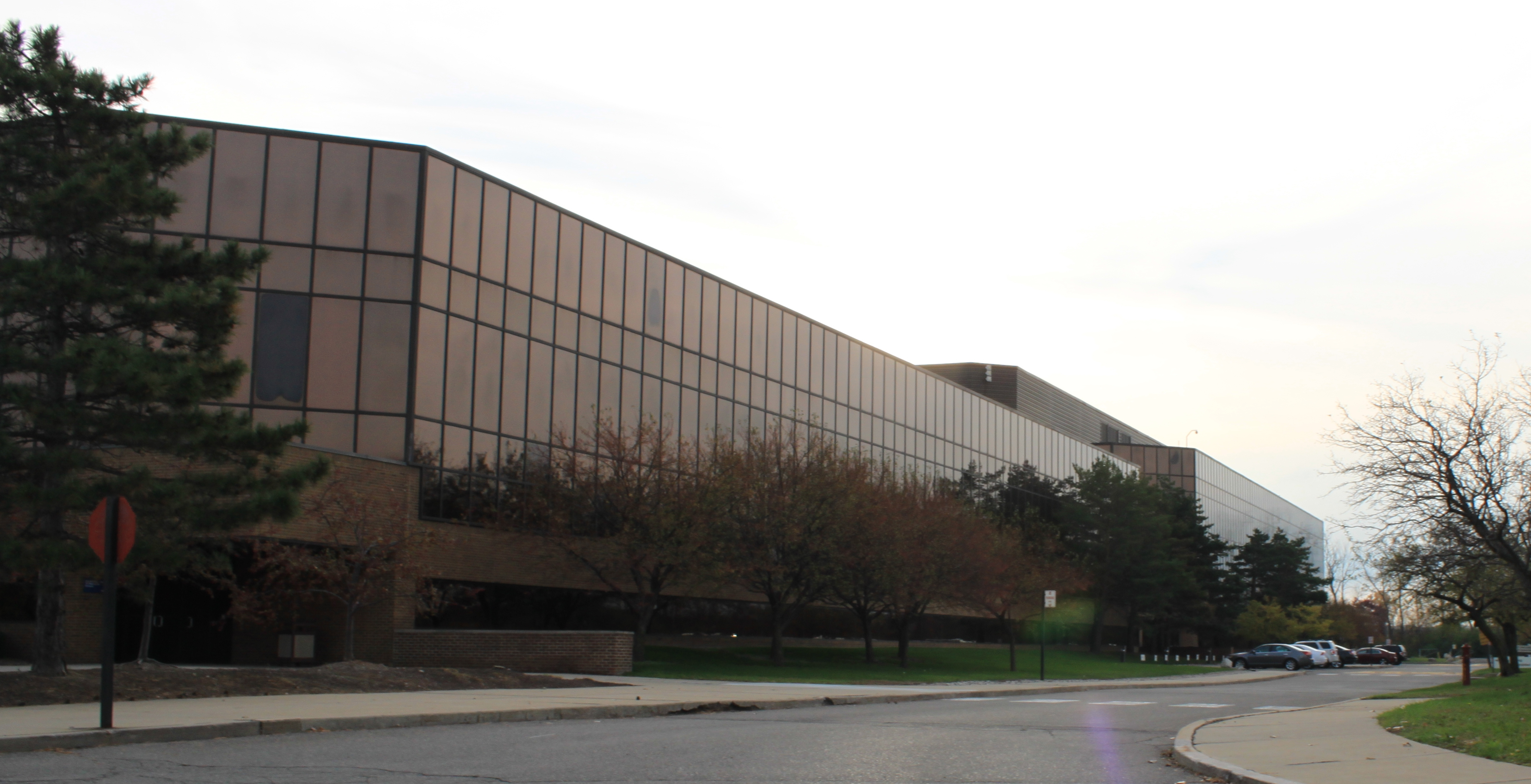 Automotive Components Holdings Company World Headquarters building — 17000 Rotunda Drive, Dearborn, Michigan